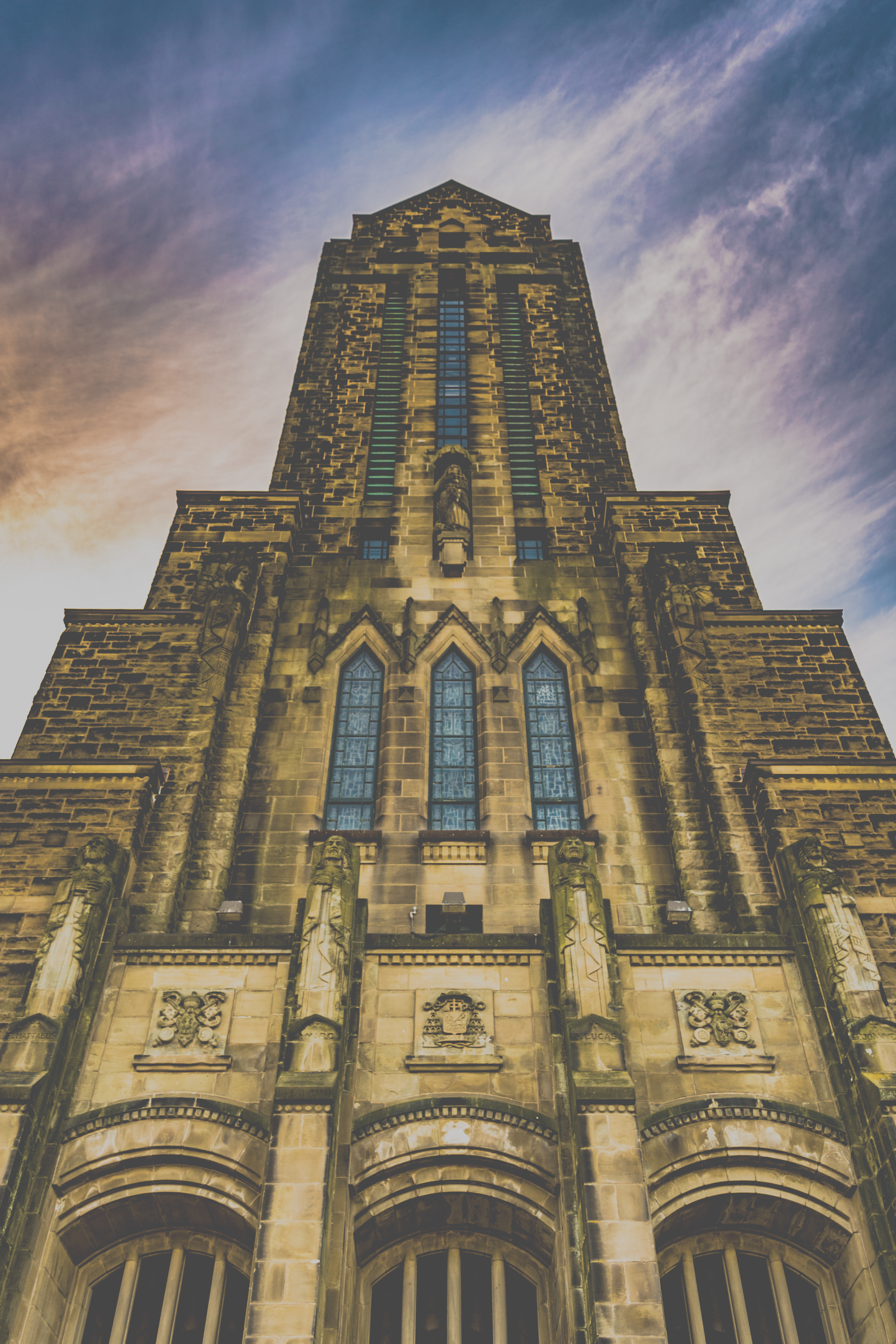 Love the old stone churches we have here in Moncton, NB - St. George street.